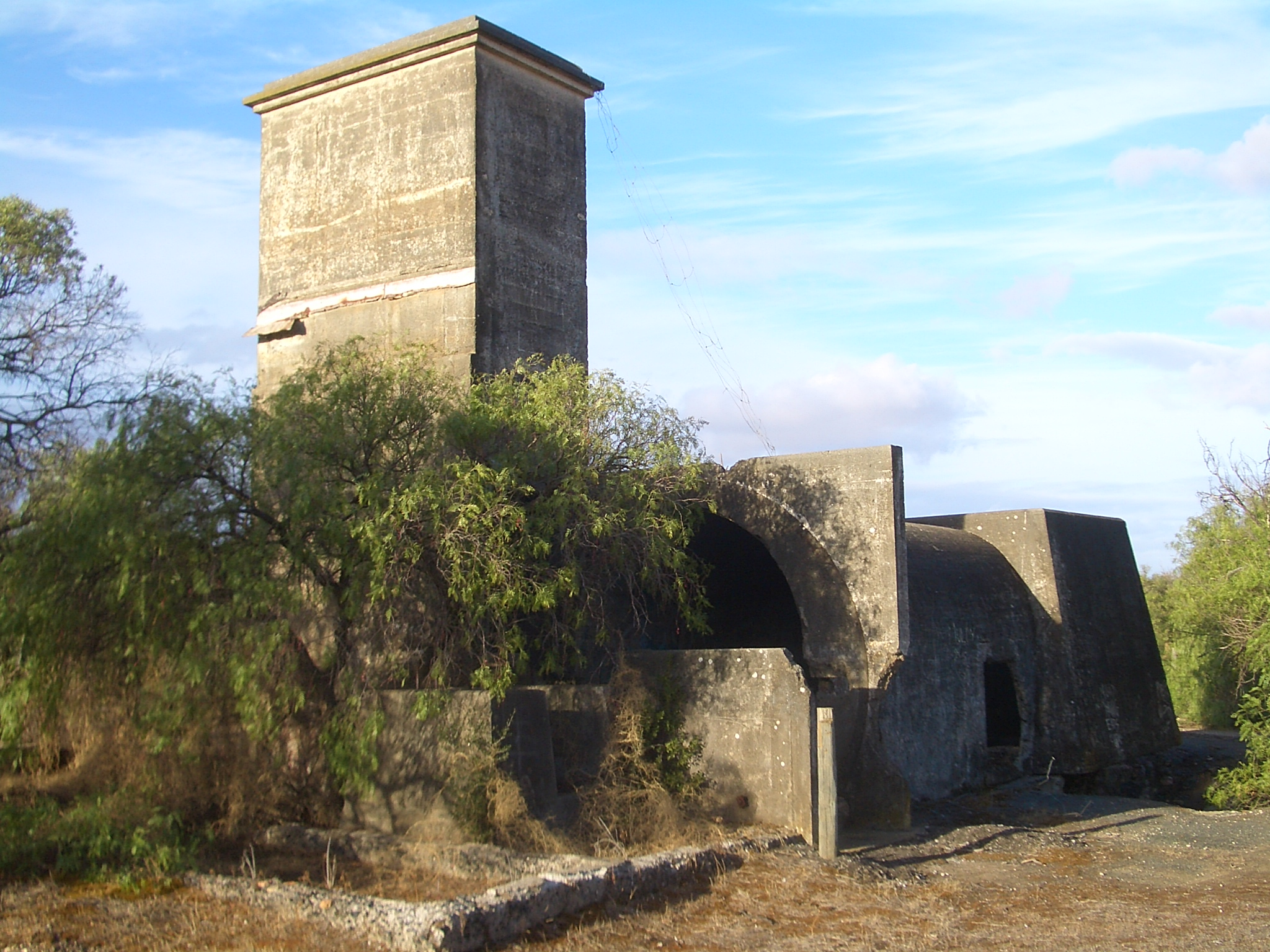 Abandoned structures (Boors' Fan)at Wallaroo Mines (copper mine site at Kadina, SA).